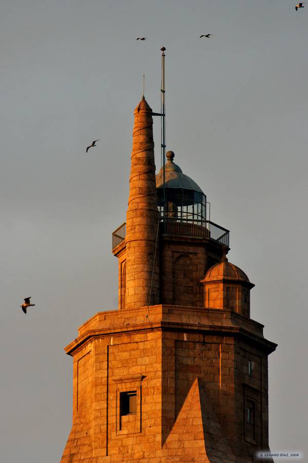 Lighthouse Torre de Hercules , A Coruña , Spain